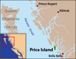 This is a locator map of Price Island. I, Pfly, made it with ArcGIS, Adobe Illustrator, and Adobe Photoshop. The coastline data is from the Digital Chart of the World.